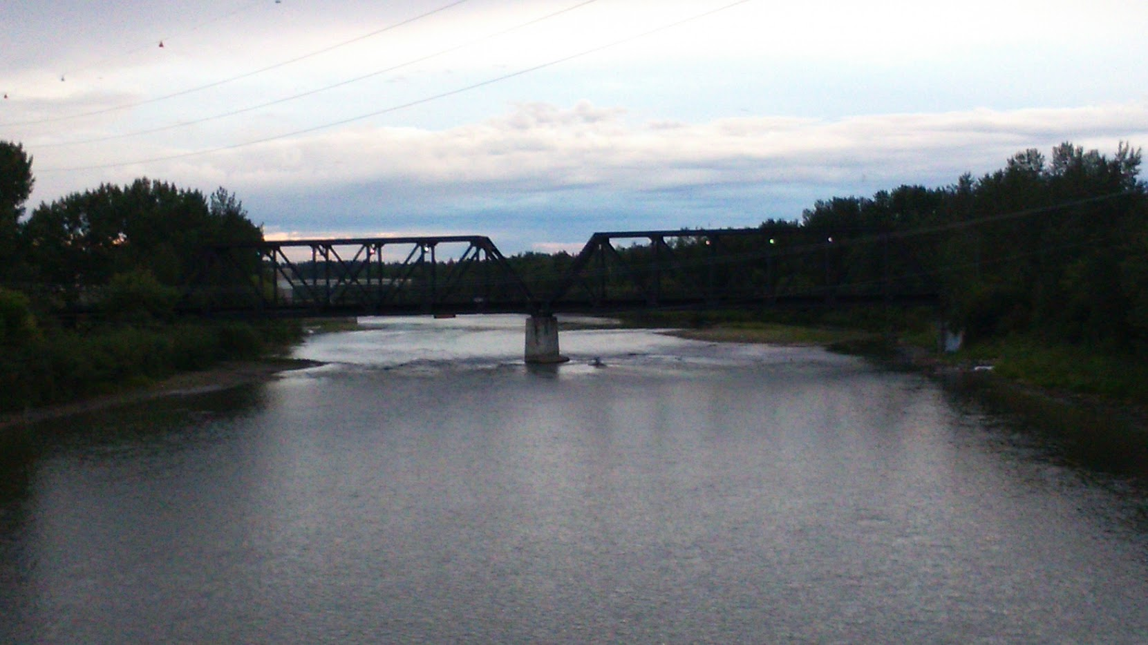 The Canadian Pacific Railway Bridge in Red Deer, Alberta over the Red Deer River. This picture is of low quality, and a higher quality picture would be welcome to replace it.